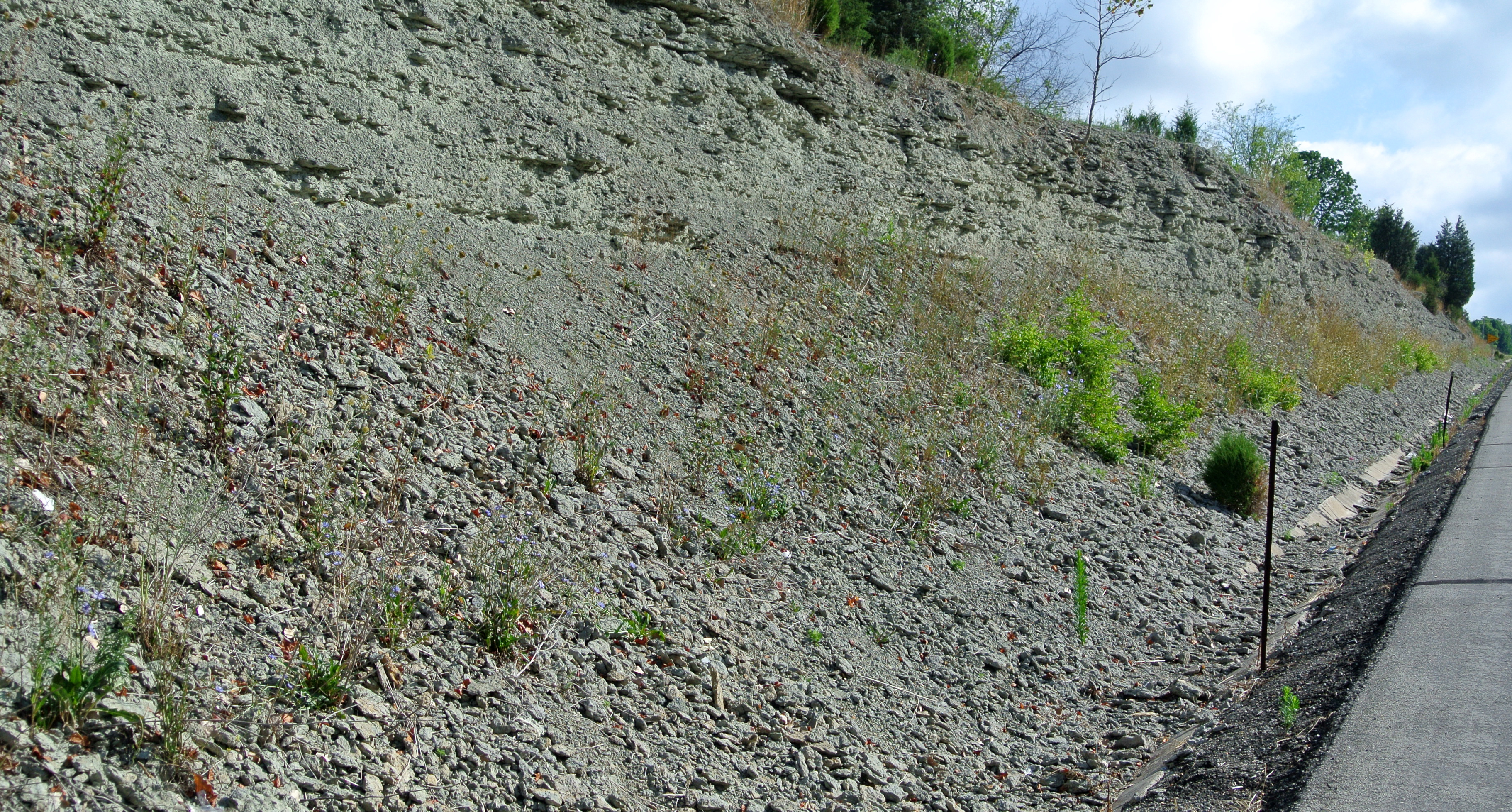 Whitewater Formation (Upper Ordovician) exposed in a roadcut near Richmond, Indiana.